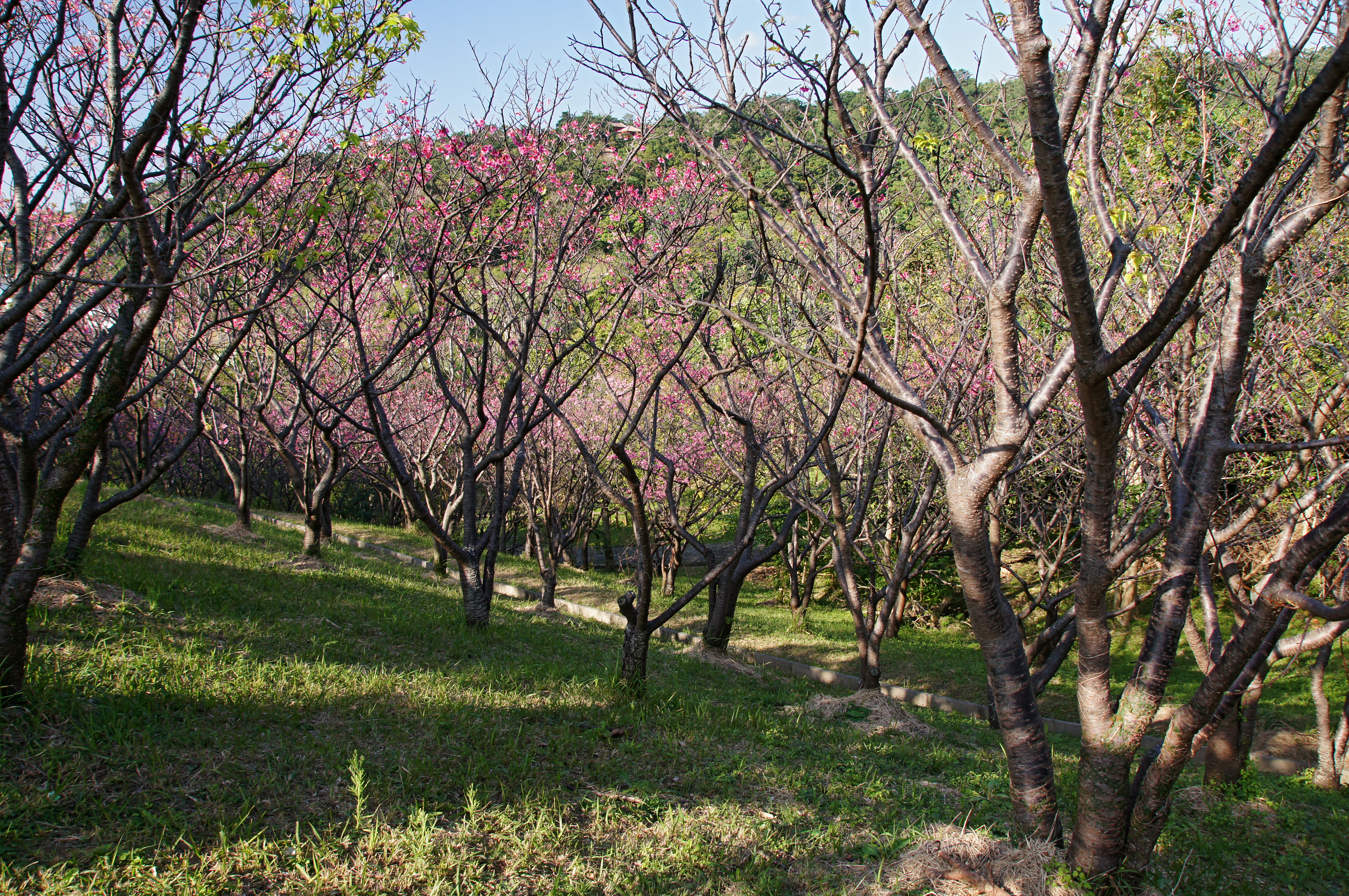 Sueyoshi Park, Naha, Okinawa prefecture, Japan